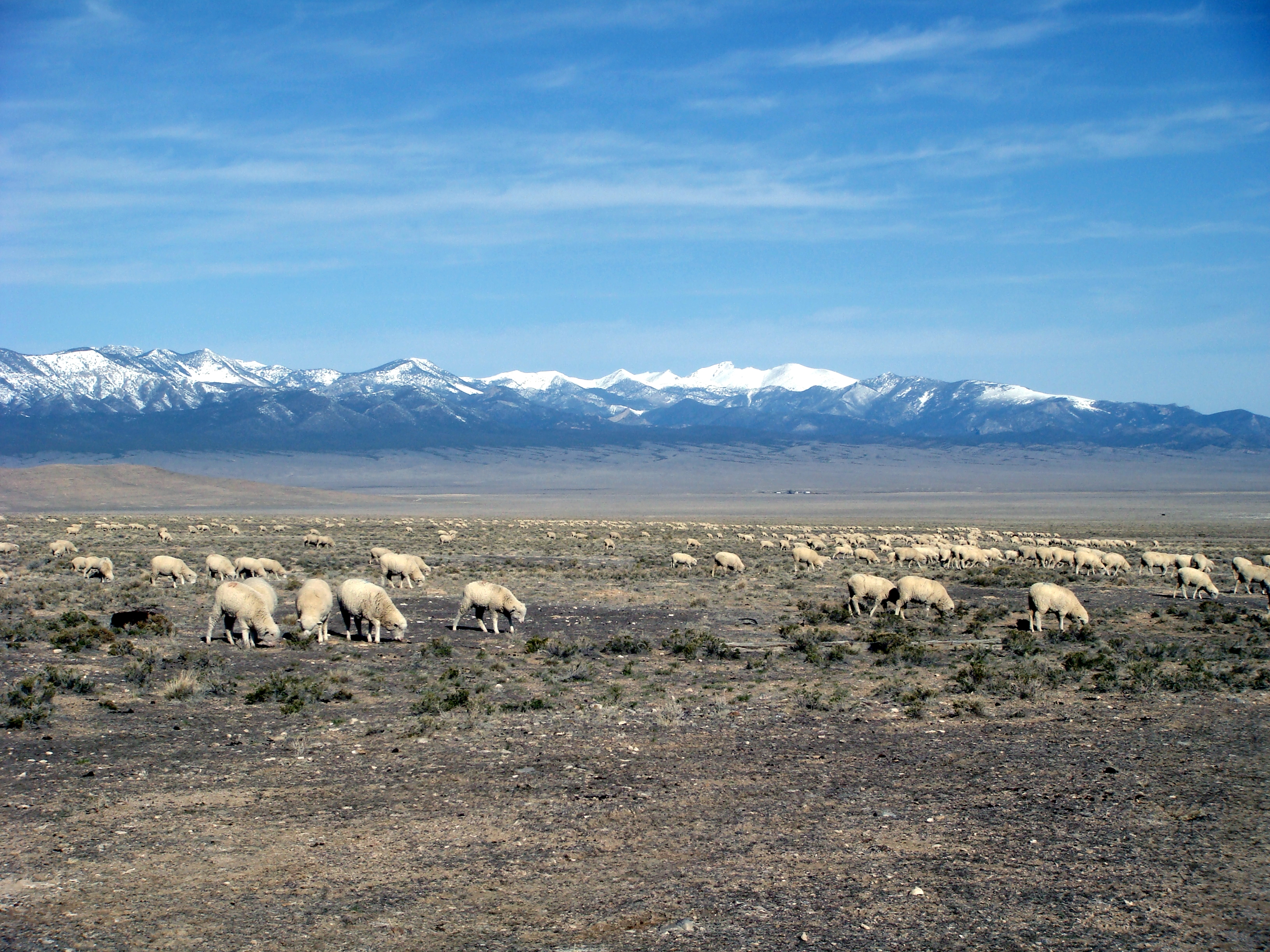 View of Snake Valley. Sheep in foreground, Southern Snake Range in background. Small cluster of buildings and trees mid-valley is part of Burbank, Utah.